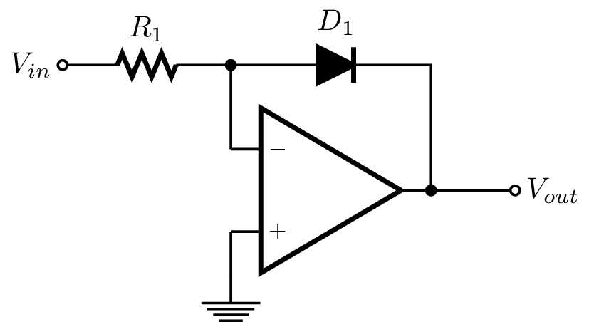 Logarithmic Amplifier builded using an op-amp, a resistor and a diode